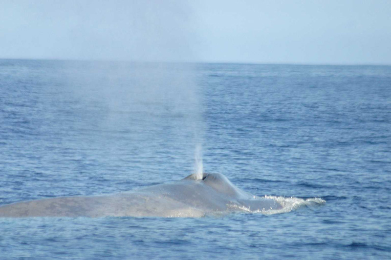 The blow of the Blue Whale